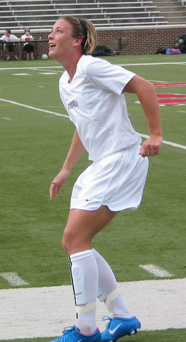 Abby Wambach Pat Gunn took this picture at a Washington Freedom exhibition game in 2004.